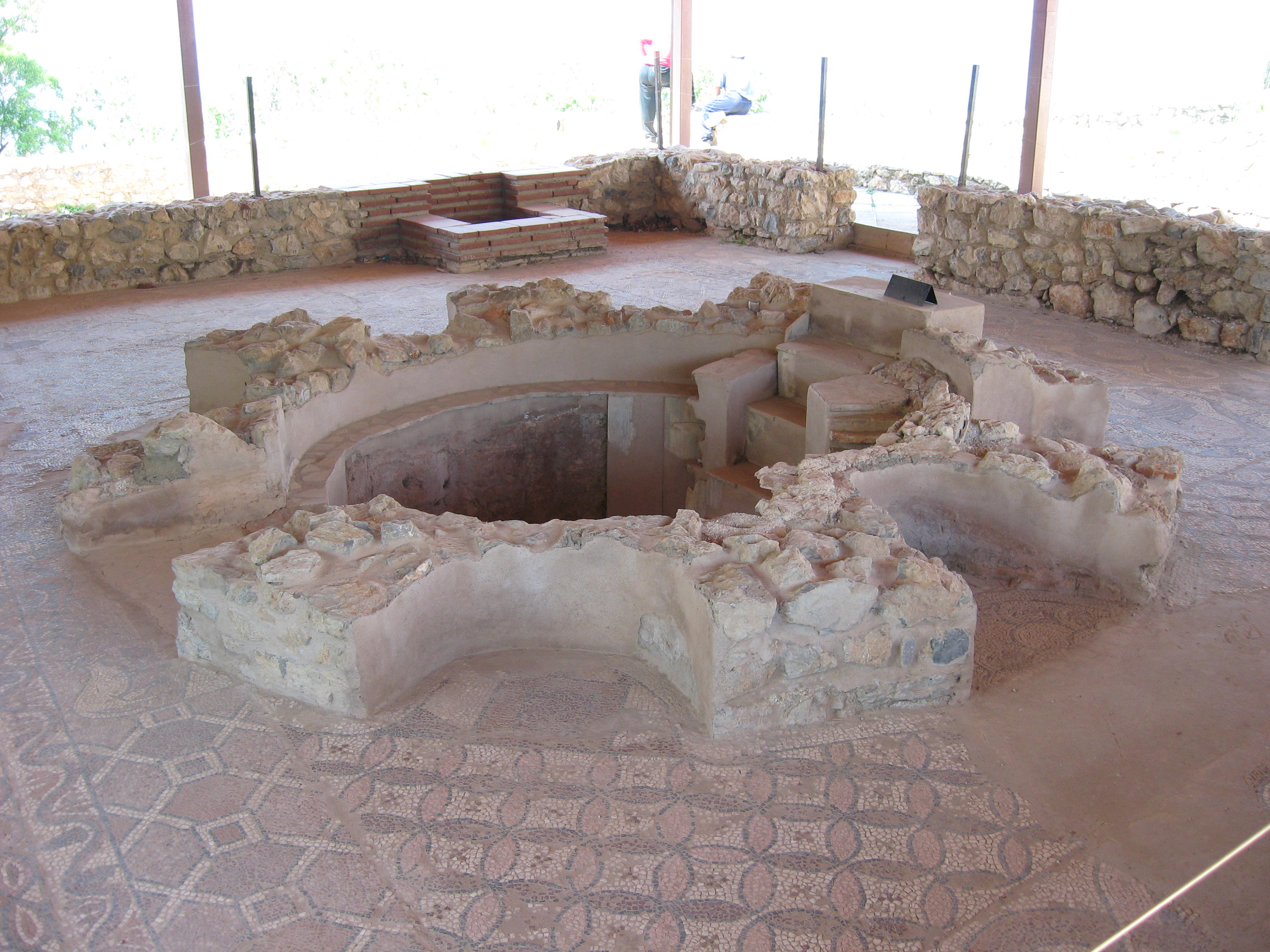 Ancient baptistry